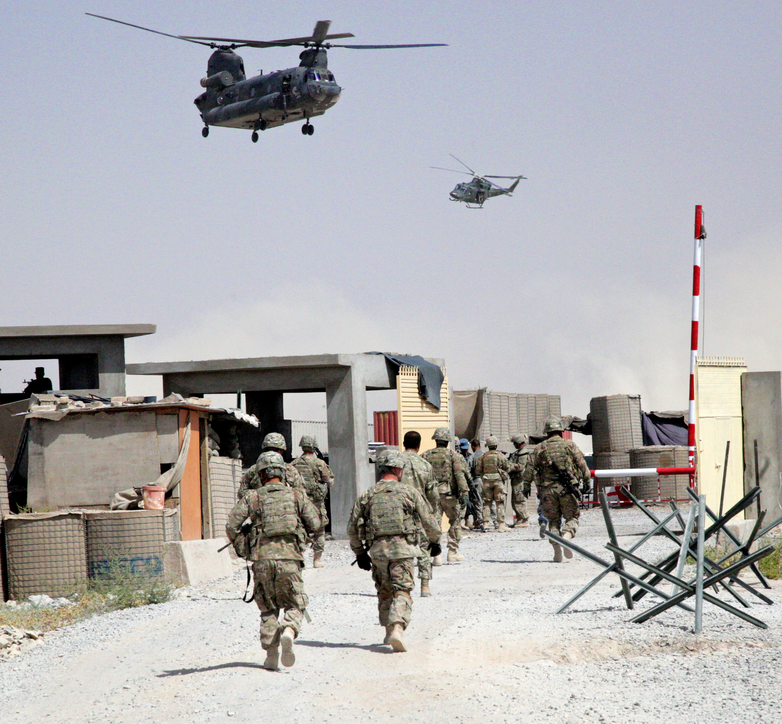 Crew members of a CH-47 Chinook helicopter prepare to land as U.S. Army soldiers move out to join Canadian army soldiers in Kandahar province, Afghanistan, July 3, 2011. Soldiers from both armies will meet with the district and Kandahar governors to celebrate the opening of the new Daman District Center.